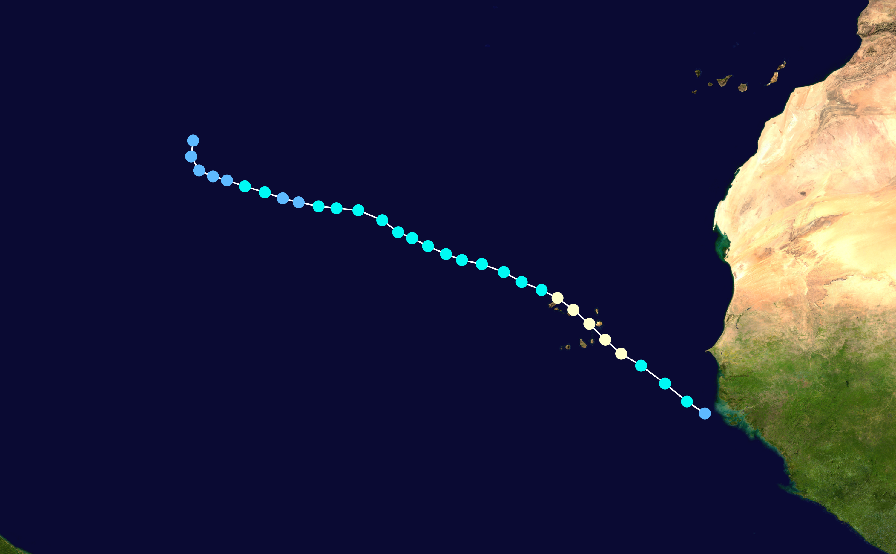 Track map of Hurricane Fred of the 2015 Atlantic hurricane season. The points show the location of the storm at 6-hour intervals. The colour represents the storm's maximum sustained wind speeds as classified in the Saffir–Simpson scale (see below), and the shape of the data points represent the nature of the storm, according to the legend below. Saffir–Simpson scale Tropical depression≤38 mph≤62 km/h Category 3111–129 mph178–208 km/h Tropical storm39–73 mph63–118 km/h Category 4130–156 mph209–251 km/h Category 174–95 mph119–153 km/h Category 5≥157 mph≥252 km/h Category 296–110 mph154–177 km/h Unknown Storm type Tropical cyclone Subtropical cyclone Extratropical cyclone / Remnant low / Tropical disturbance / Monsoon depression